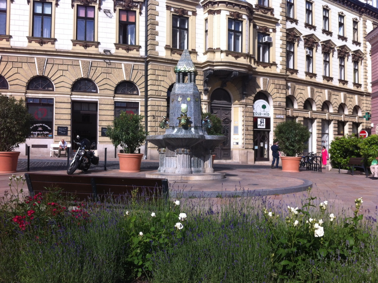 Zsolnay fountain in Pécs, Hungary